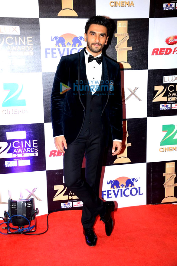 Ranveer Singh at Zee Cine Awards 2016